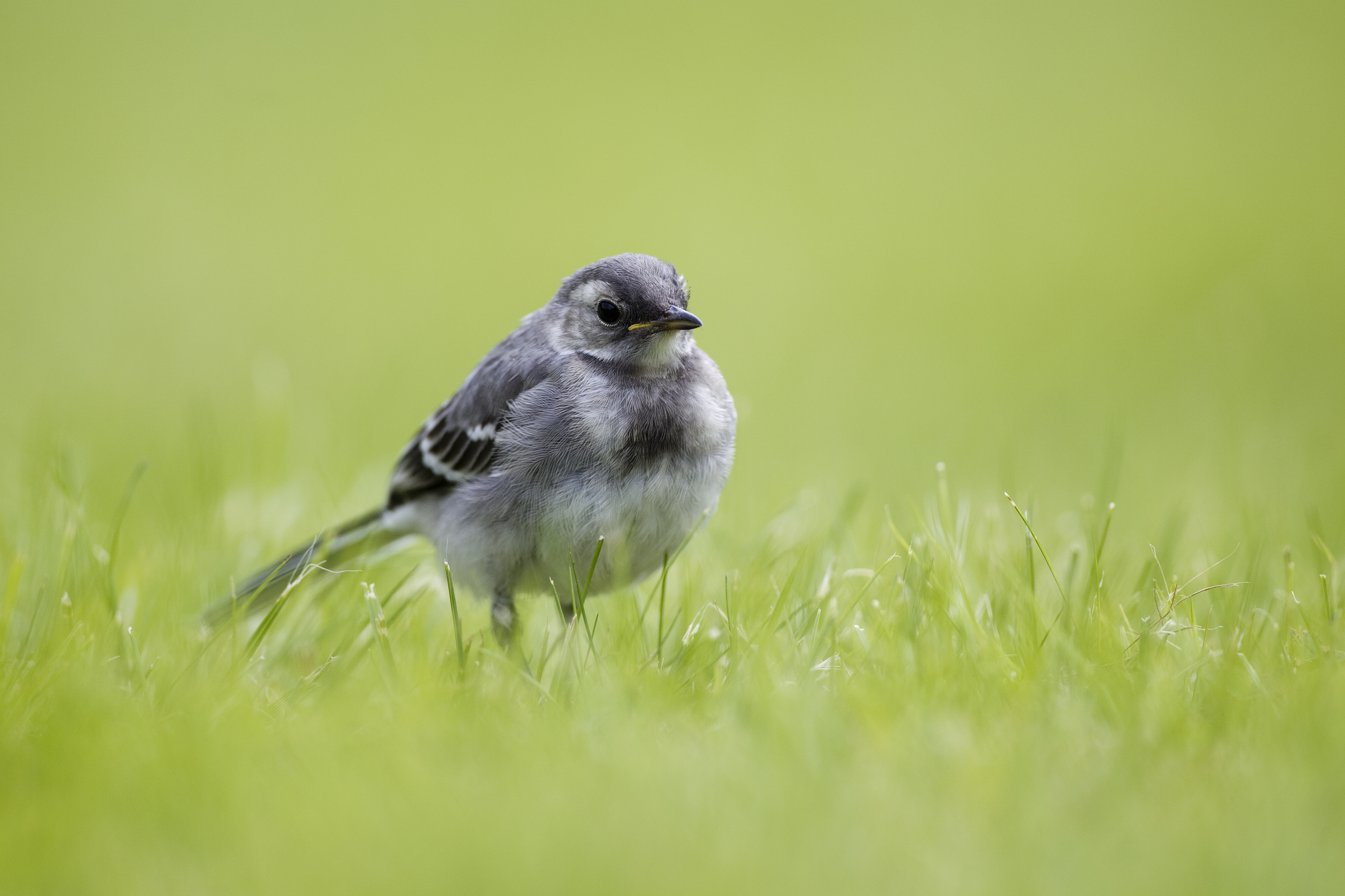 Juvenile white wagtail in Kirkeness, Norway